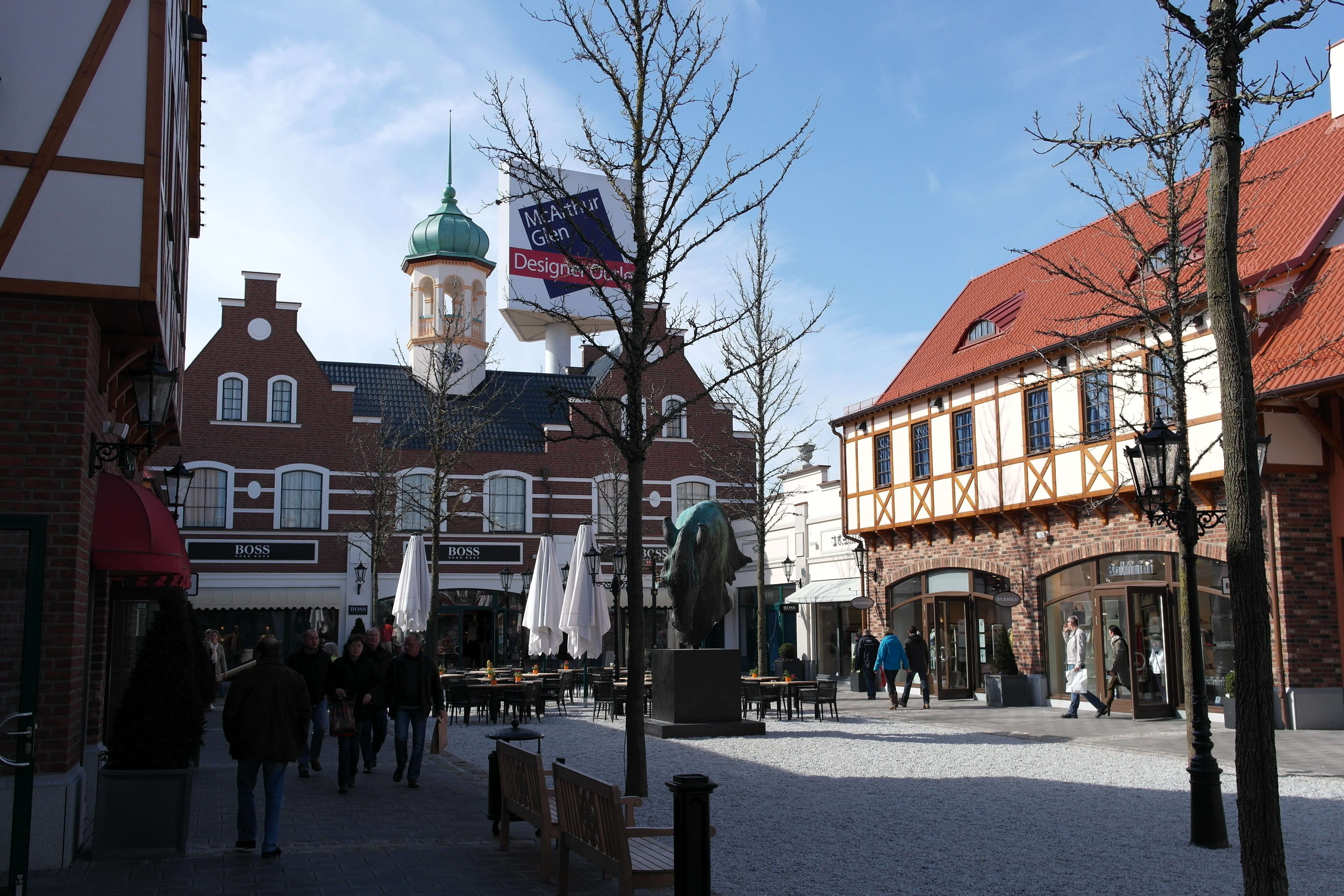 Designer Outlet Center Neumünster